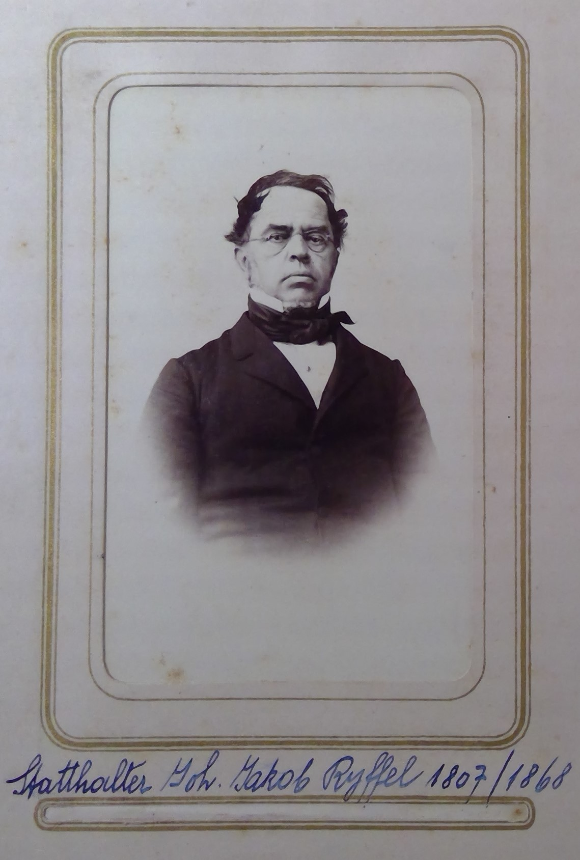 Picture of Johann Jakob Ryffel (1807-1868). He was Governor of the County of Regensberg, Canton of Zurich, Switzerland and member of the Great Counsil of Zurich and member of the National Counsil of Switzerland in the middle of the 19th Century. The exact date, when the picture was taken, is not clear. It can be between 1860 an 1868.